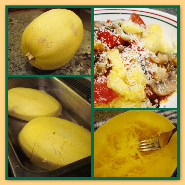 Spaghetti Squash...healthy alternative to pasta